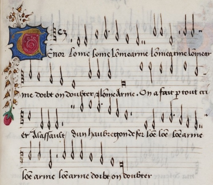 L'homme armé (tenor voice of a three part version) in the Mellon Chansonnier